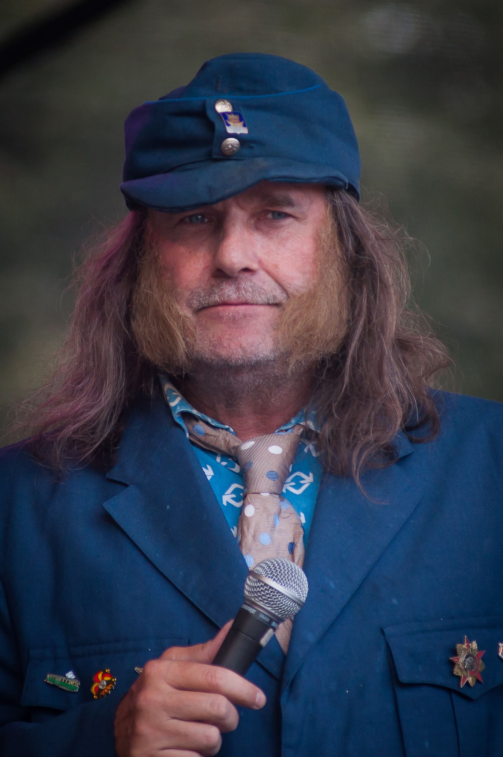 Kai "Kaide" Järvinen performing as Aarne Tenkanen at the 2013 Rakuunarock festival in Lappeenranta, Finland.